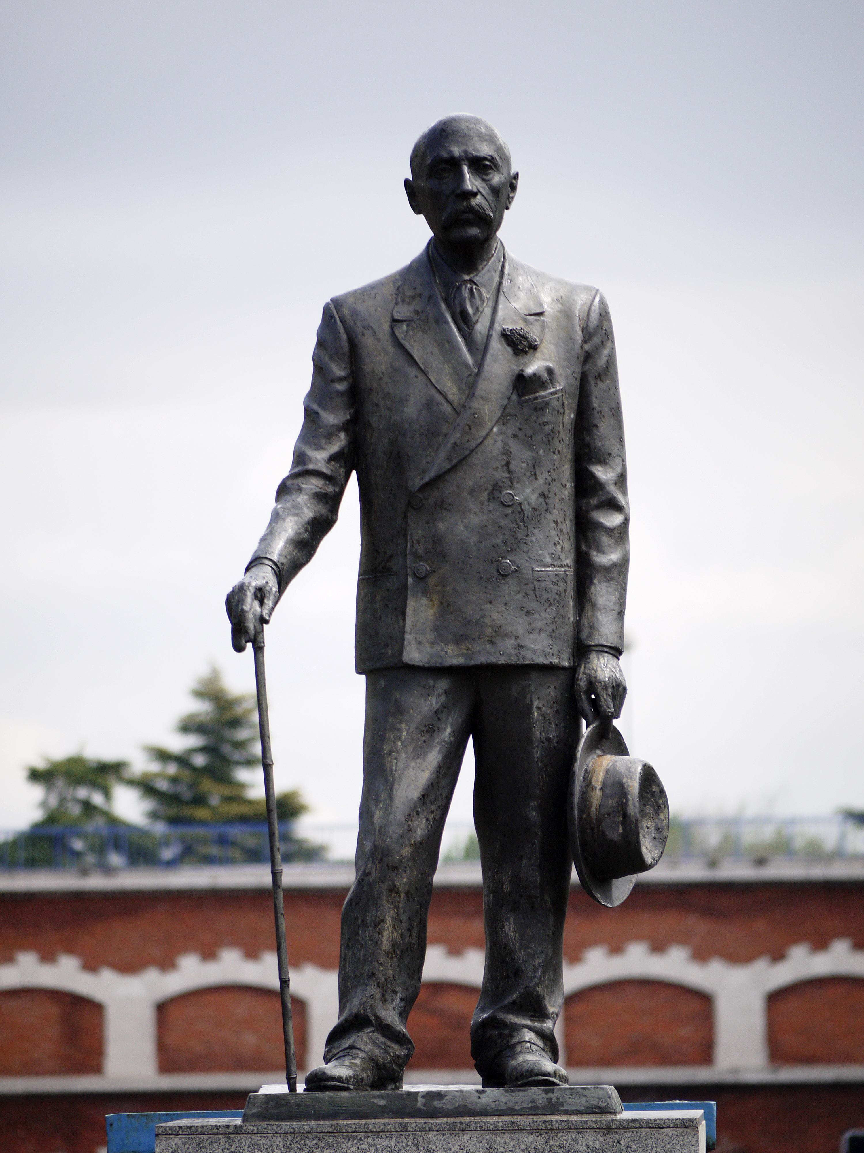 Statue of Arturo Soria y Mata, Calle Arturo Soria, Ciudad Lineal, cc Av América. Madrid, Spain